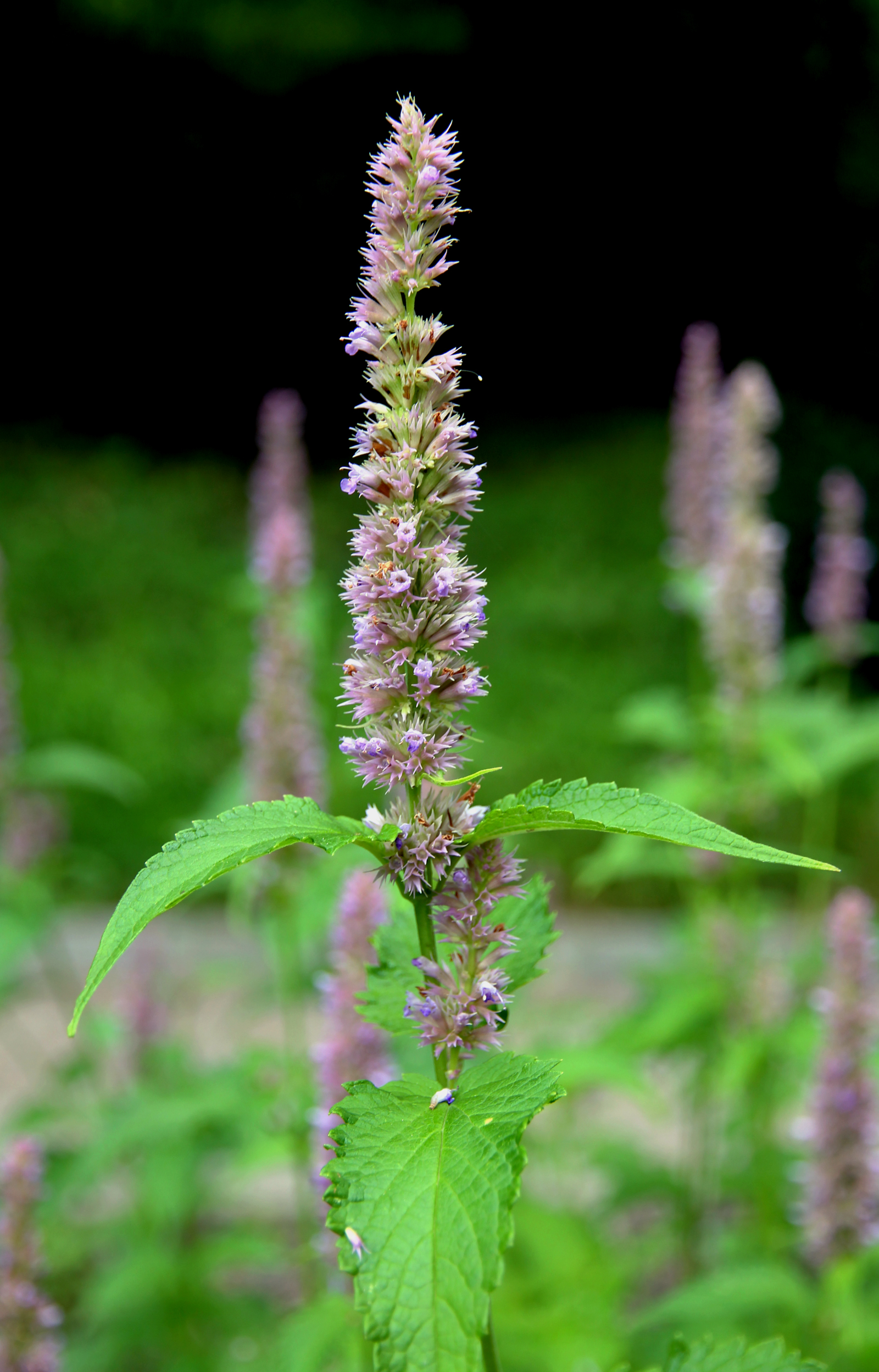 Flowers of plantAgastache mexicana from the Botanical Gardens of Charles University, Prague, Czech Republic